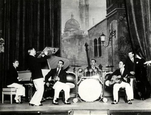 Nat Gonella and the New Georgians. Pianist left probably Nan Blackstone. Date and place unknown